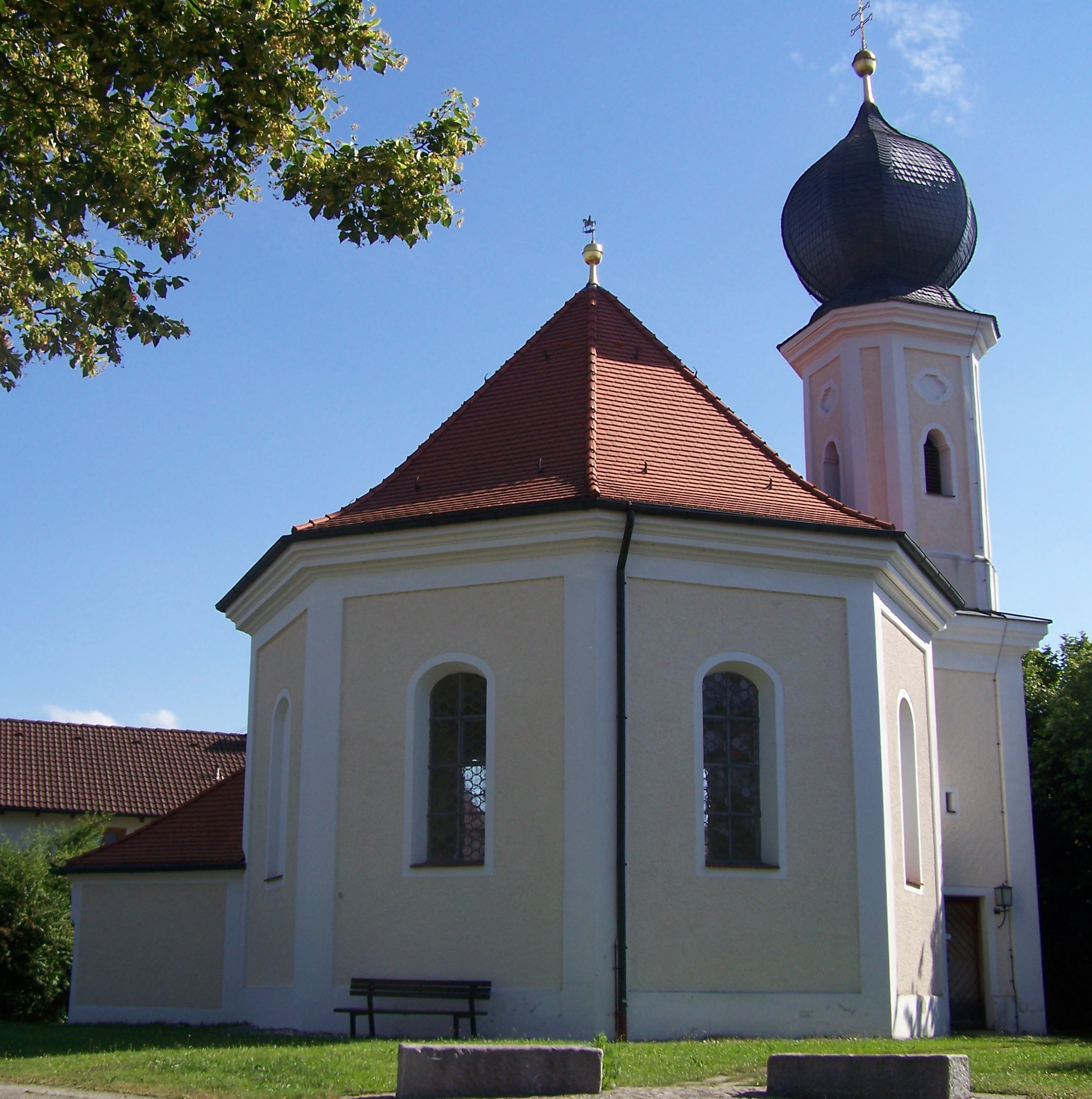 Schweppermannkapelle in Ampfing